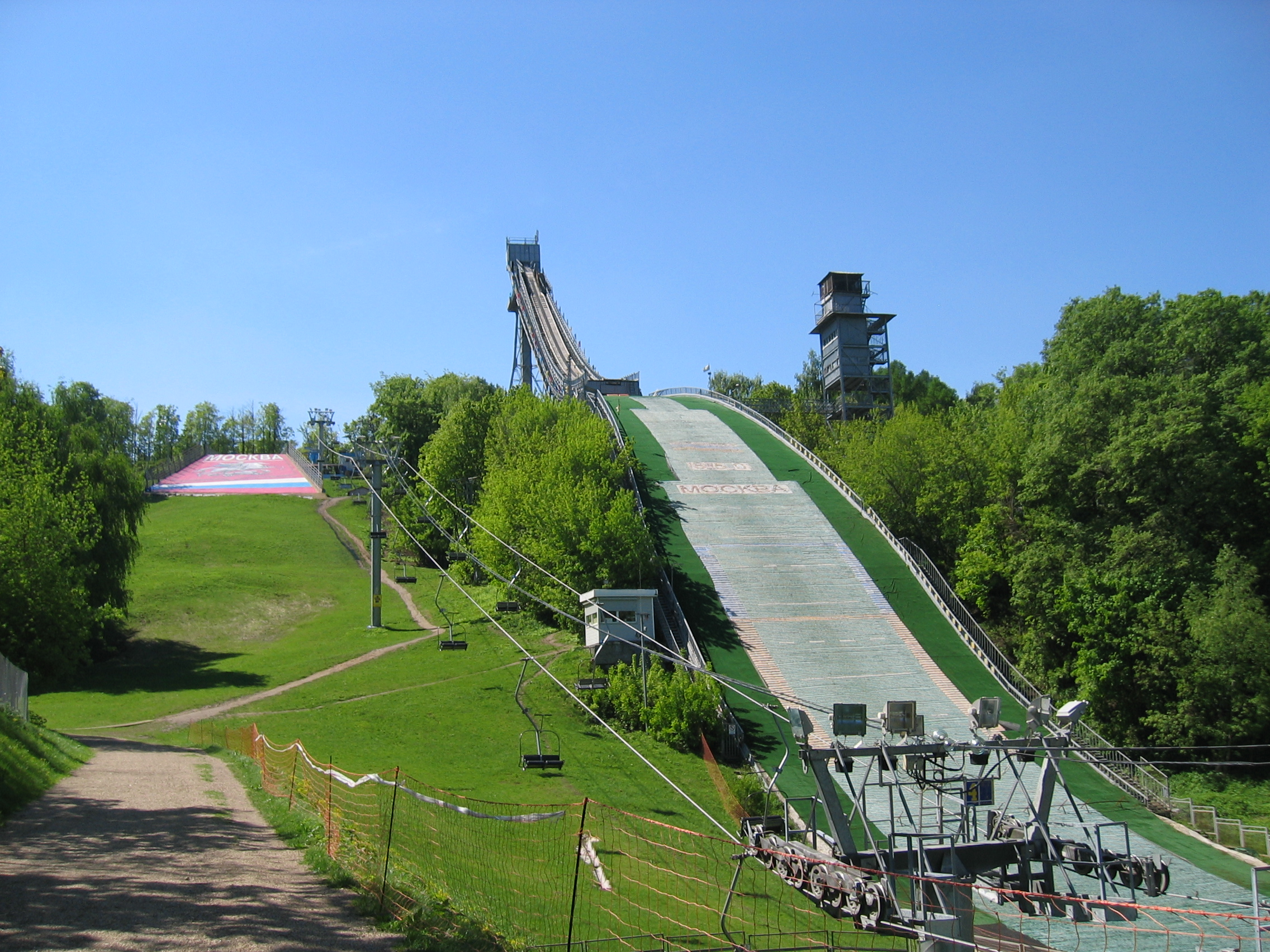 Leninskie Gory ski jumping hill in Moscow, Russia, K72. Original description: They have a ski jump in Moscow?